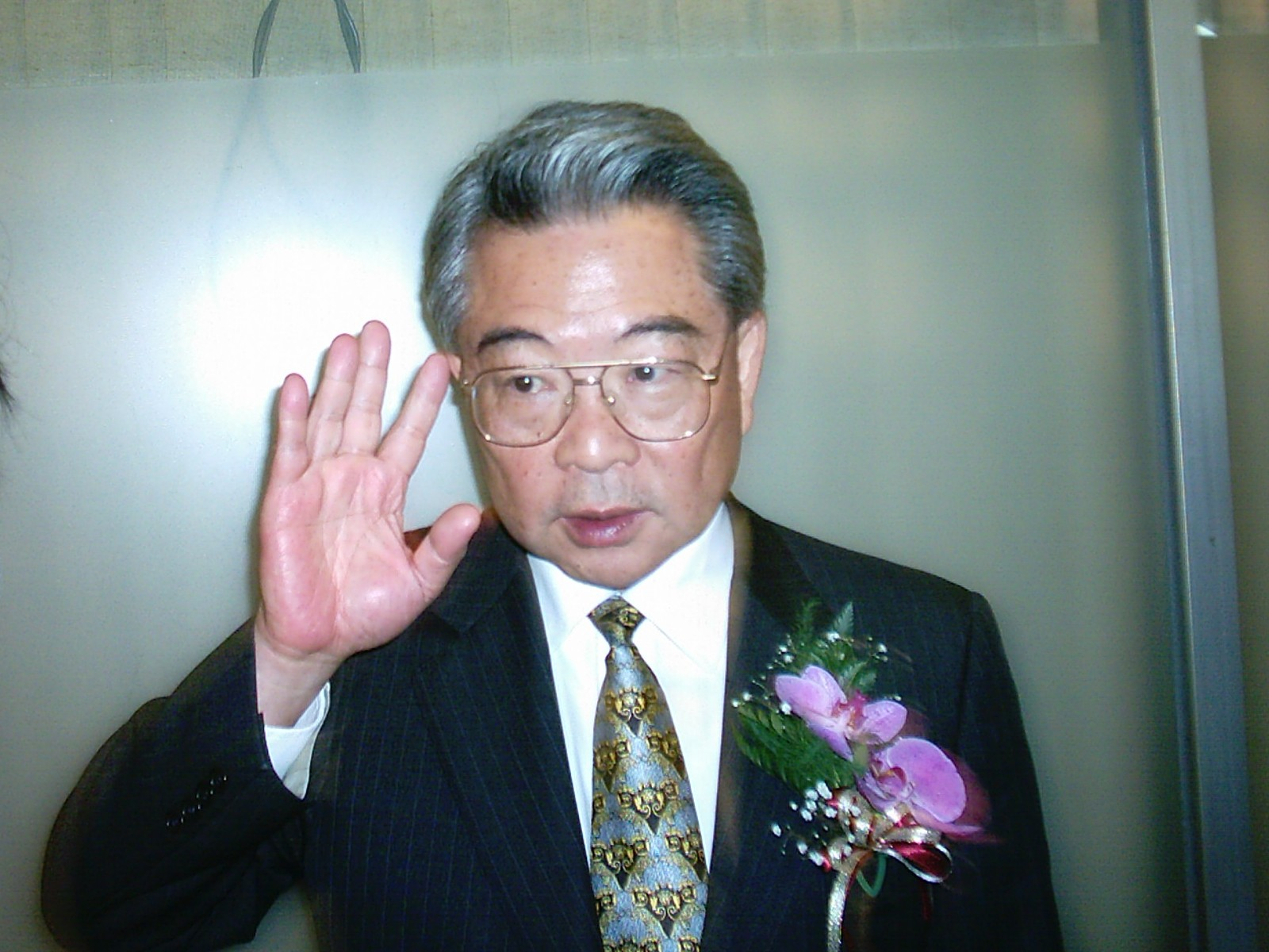 Rock Sheng-Hsiung Hsu, Chairman of China Productive Center and Taiwan Electrical And Electronic Manufacturers’ Association.